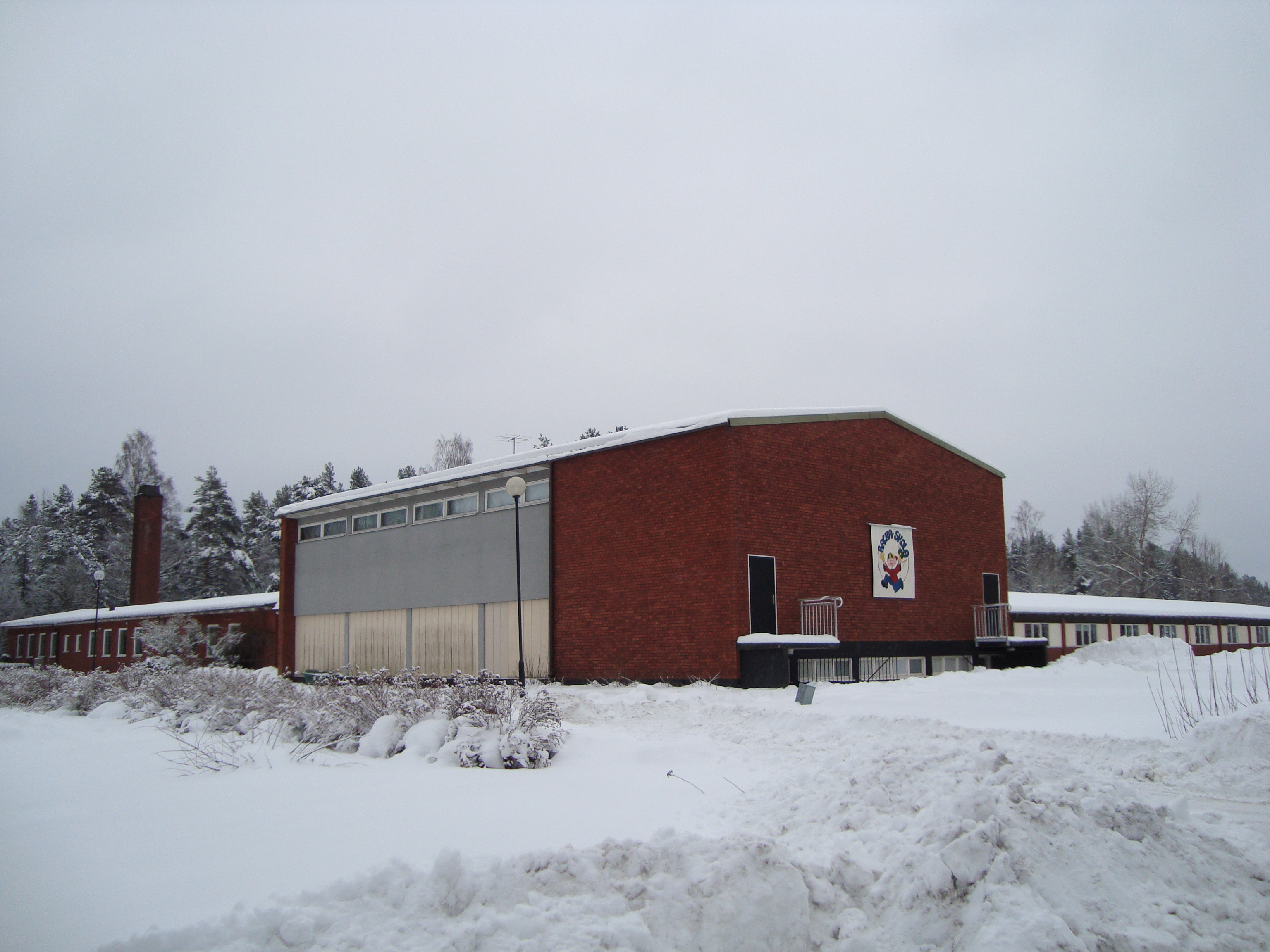 School of Backa, south of Hedemora, Sweden